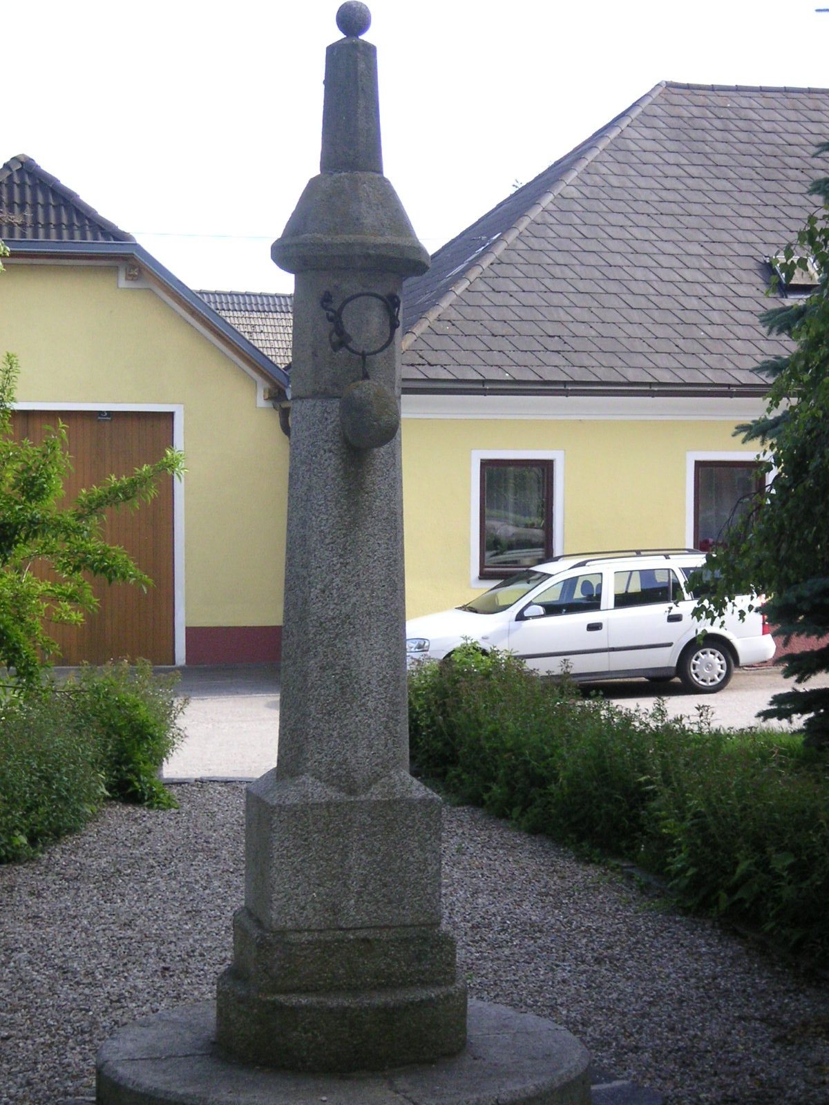 Pillory on marketplace of Grafenschlag, Lower Austria